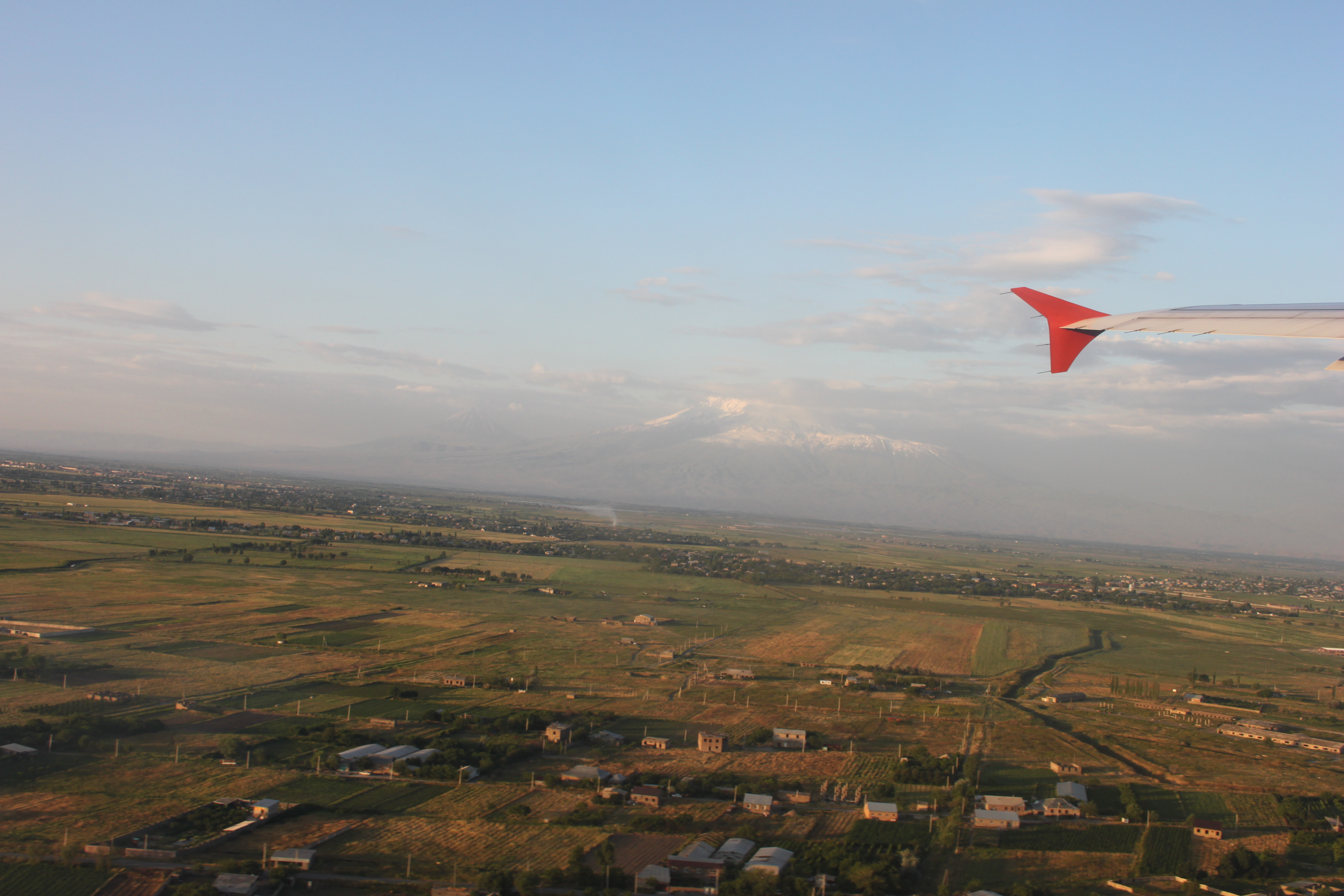 Arevashat and Hayanist villages from the air, Armenia